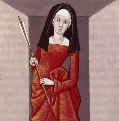 Iole, daughter of Eurytus, king of the city Oechalia.